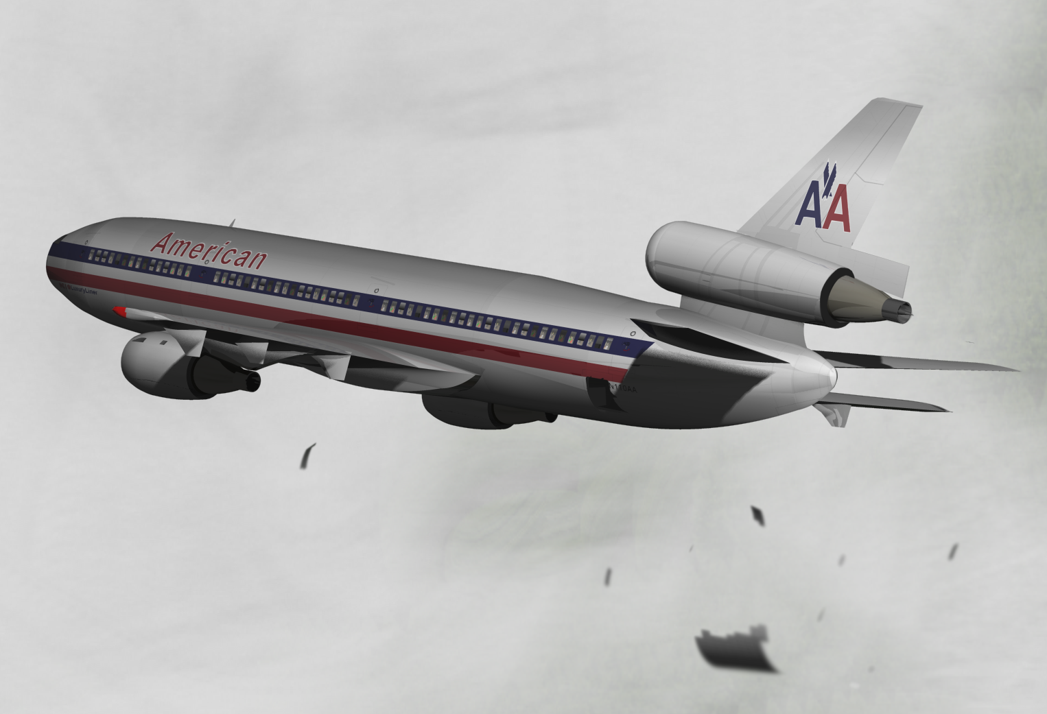 Cropped from :Image:Aaflight96dc10.png. American Airlines Flight 96 loses its aft bulk cargo door.